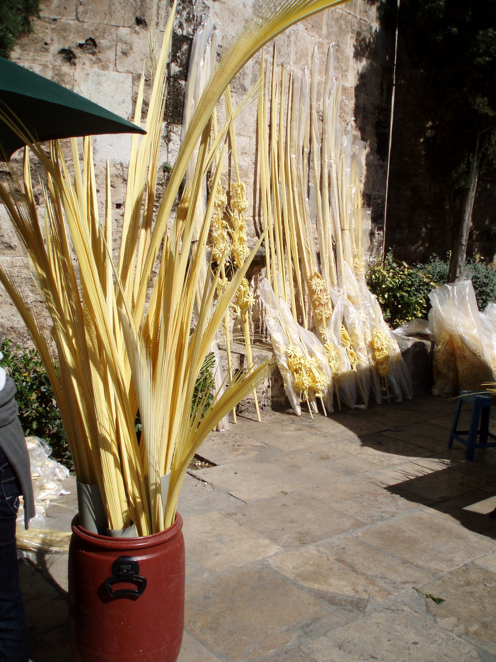 Palm leaf art as used in Elche/Elx (Spain) "Domingo de Ramos" (Palm Sunday) procession.